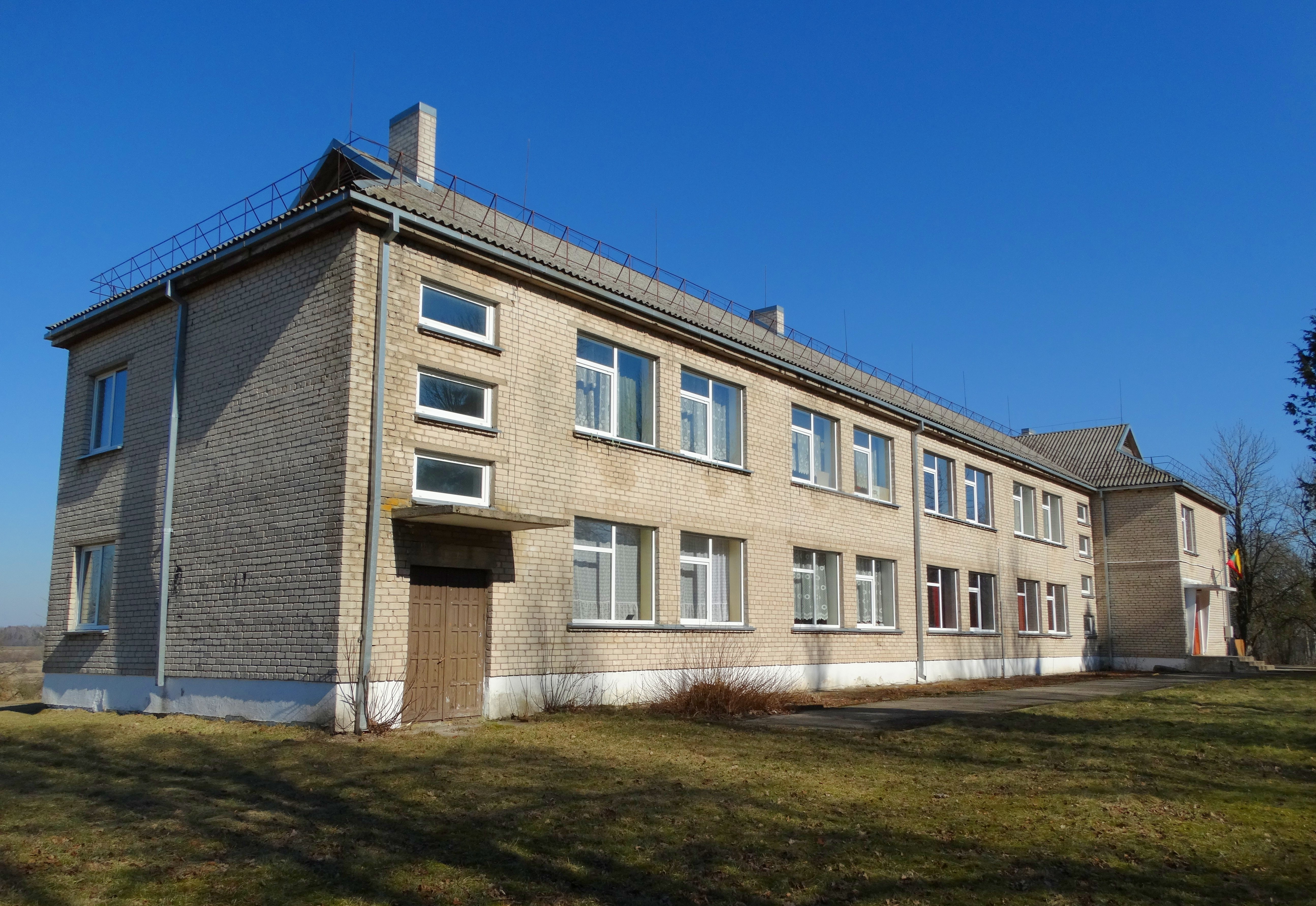 School, Lykšilis, Kelmė district, Lithuania